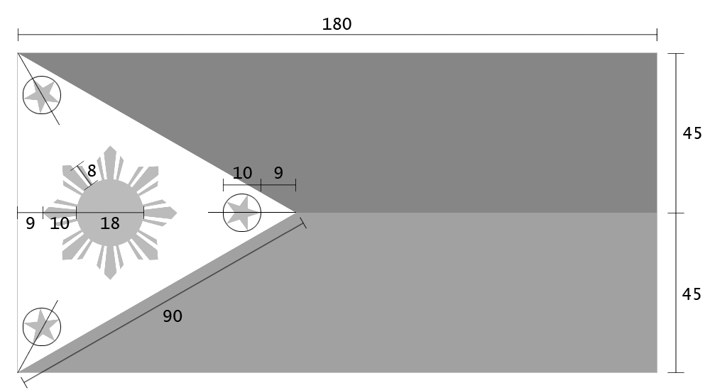 Construction sheet of the Flag of the Philippines. Based on construction sheet at .[1]